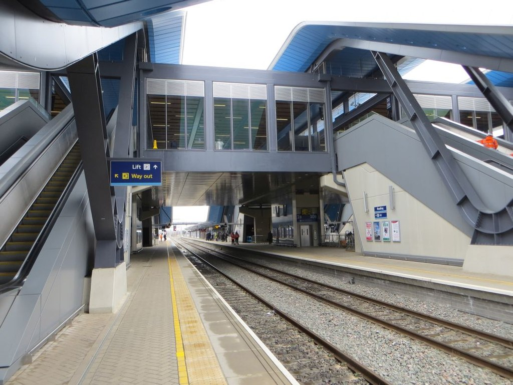 Part of the concourse of the new Reading station